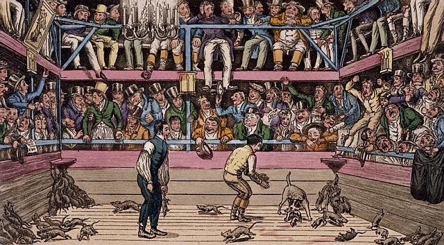 rat-baiting pit in a tavern during the mid-1800s